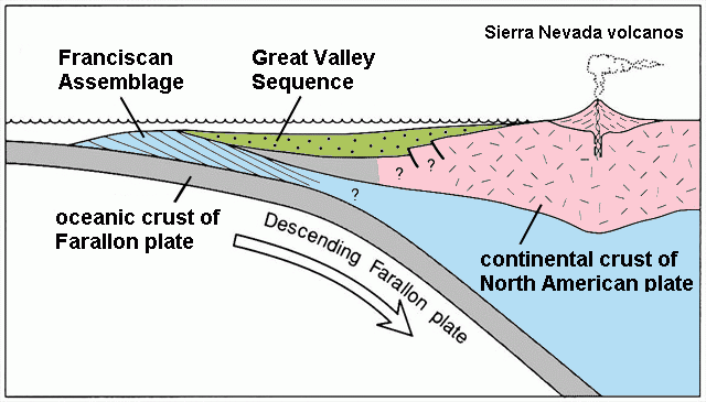 Diagram showing model for emplacement of Franciscan Assemblage and deposition of Great Valley sequence